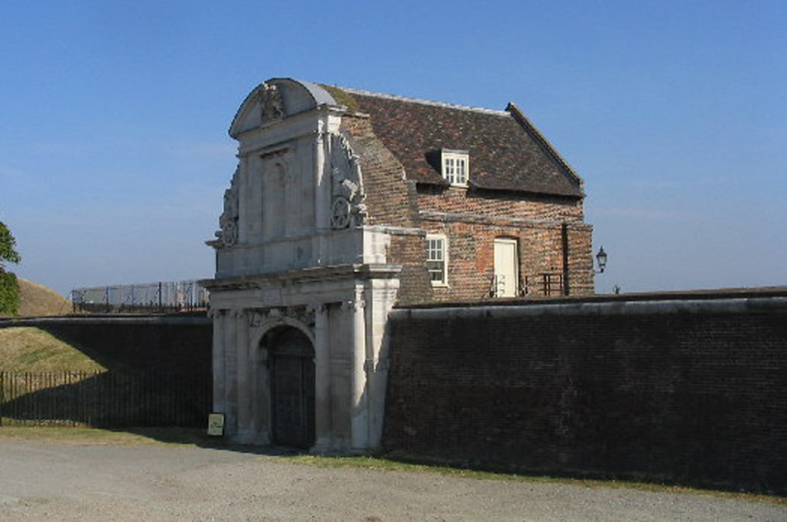 Trimmed